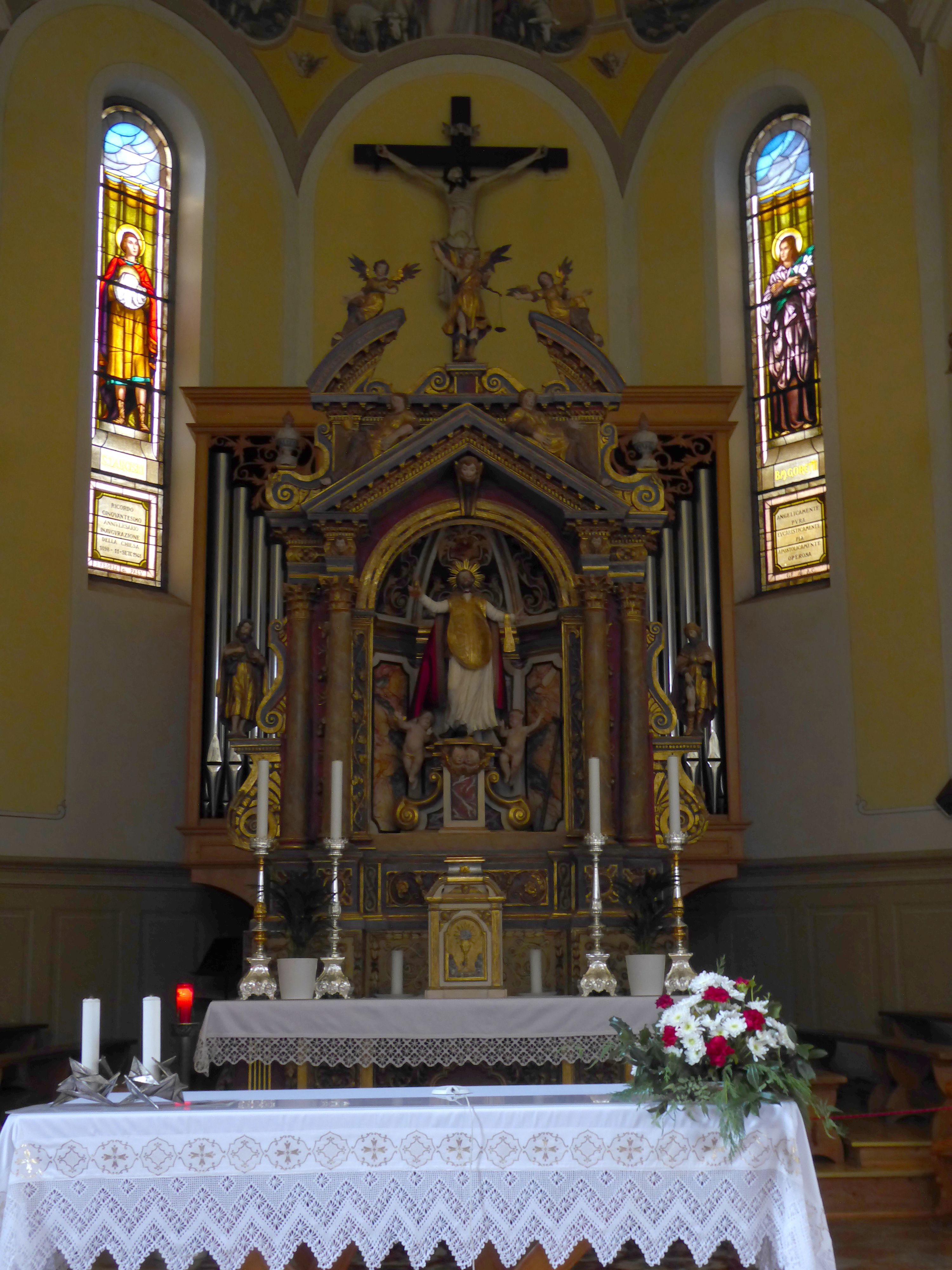 Saint Valentine church in Palù di Giovo (Giovo, Trentino, Italy)